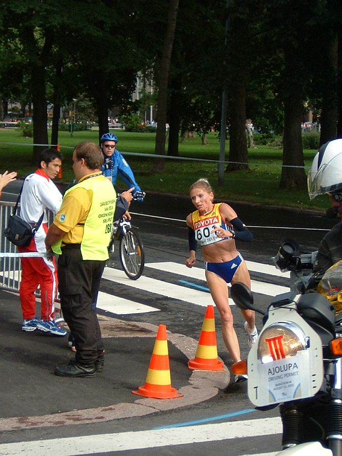 Constantina Diţă-Tomescu during the Women's Marathon. 2005 World Championships in Athletics, Helsinki, Finland , 14. August 2005